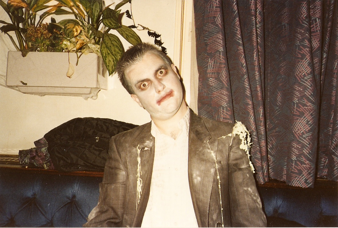 Image of uploader taken by then girlfriend, dressed as "arisen dead" character for Halloween themed party.